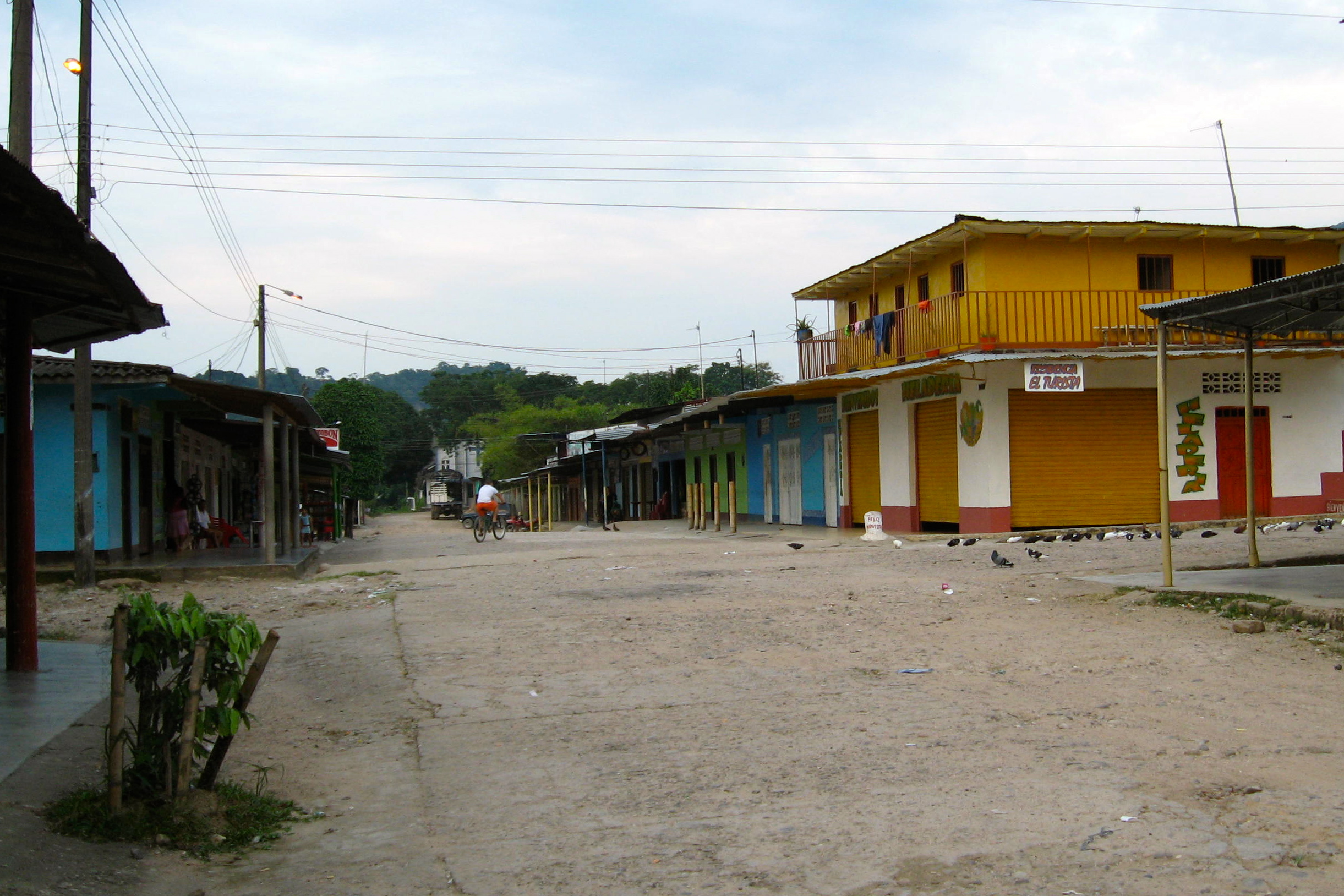 Main Street - Neighborhood called Center